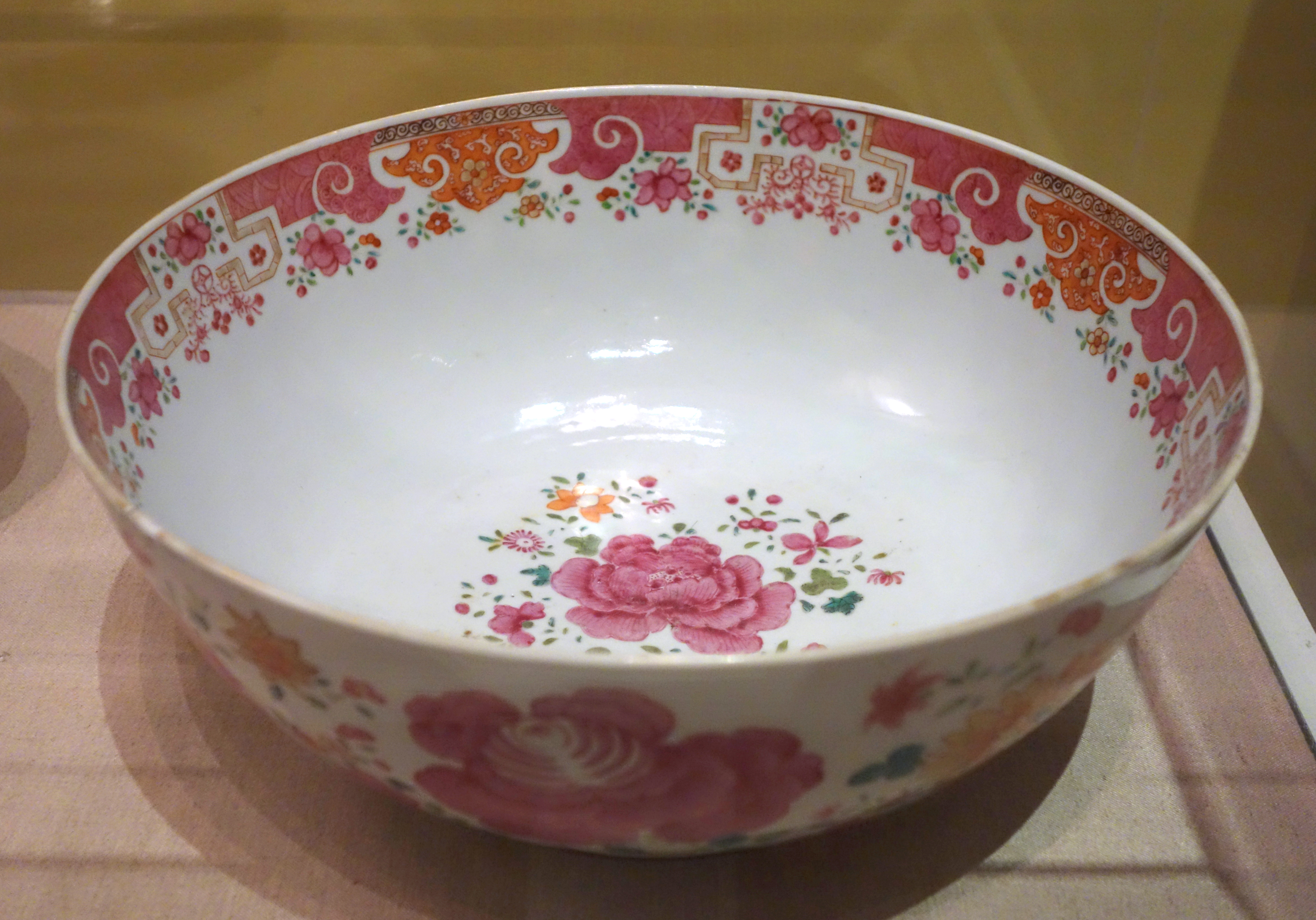 Exhibit in the Albany Institute of History and Art, Albany, New York, USA. This artwork is in the public domain because the artist died more than 70 years ago.